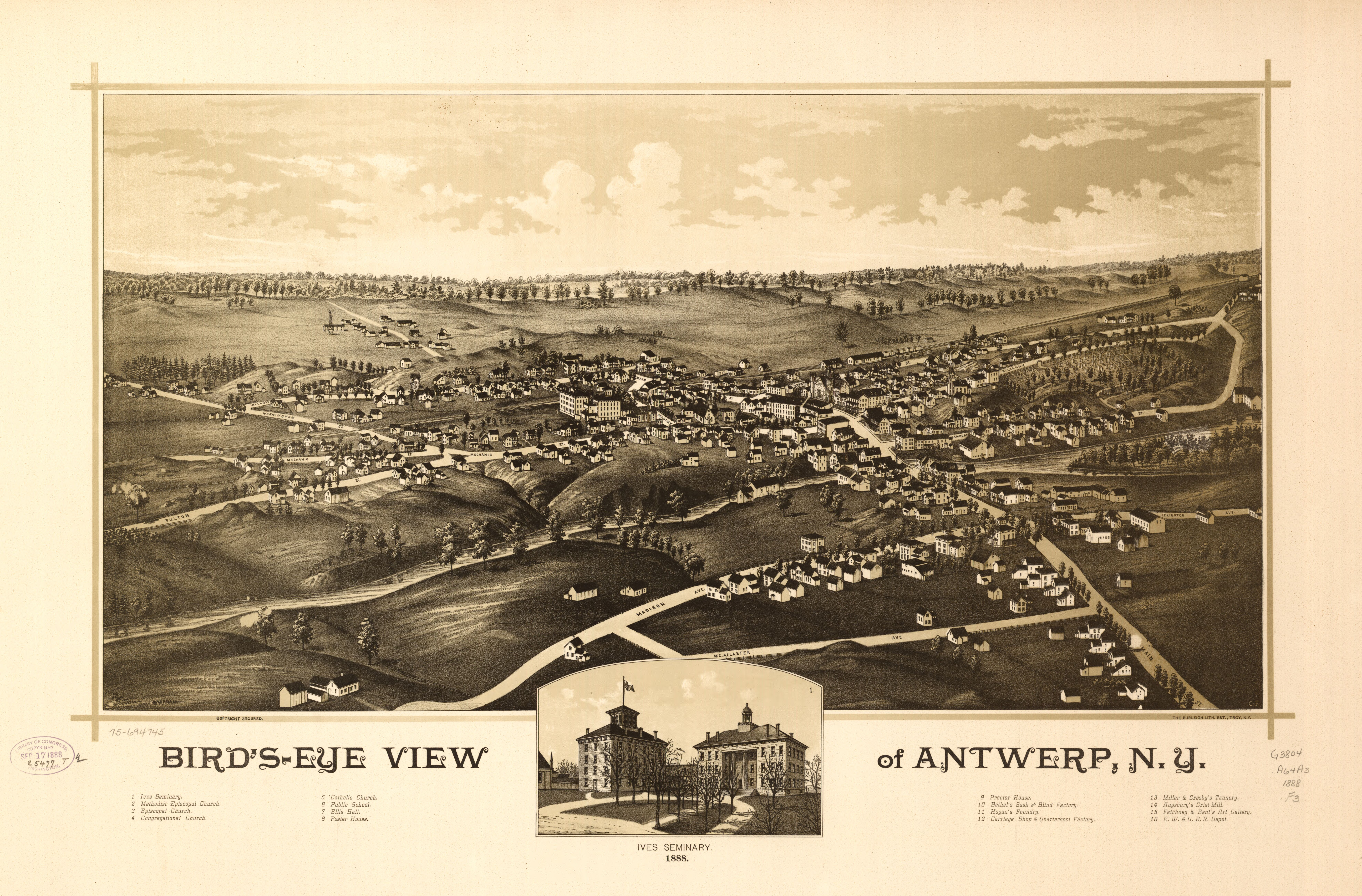 Perspective map not drawn to scale. LC Panoramic maps (2nd ed.), 536 Available also through the Library of Congress Web site as a raster image. Includes index to points of interest and view of "Ives Seminary." AACR2